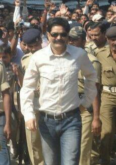 vee rmohammad shahabuddin